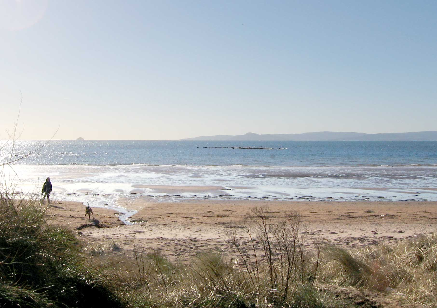 View from the sand beach at Seamill, looking south over the lower Firth of Clyde. The Isle of Arran is visible in the distance to the right, and the small islet of Aisla Craig can just be seen on the horizon. Seamill, Ayrshire, lies close to West Kilbride. photograph taken in February 2006 by User:Dave souza. Any re-use to contain this licence notice and to attribute the work to User:Dave souza at Wikipedia.